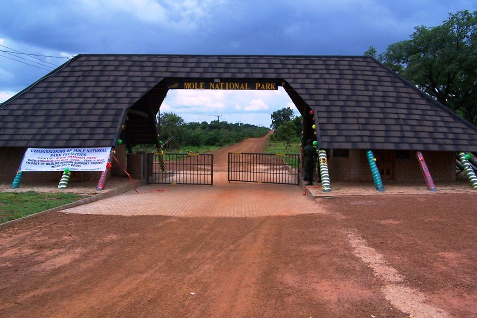 official guest entrance to mole park